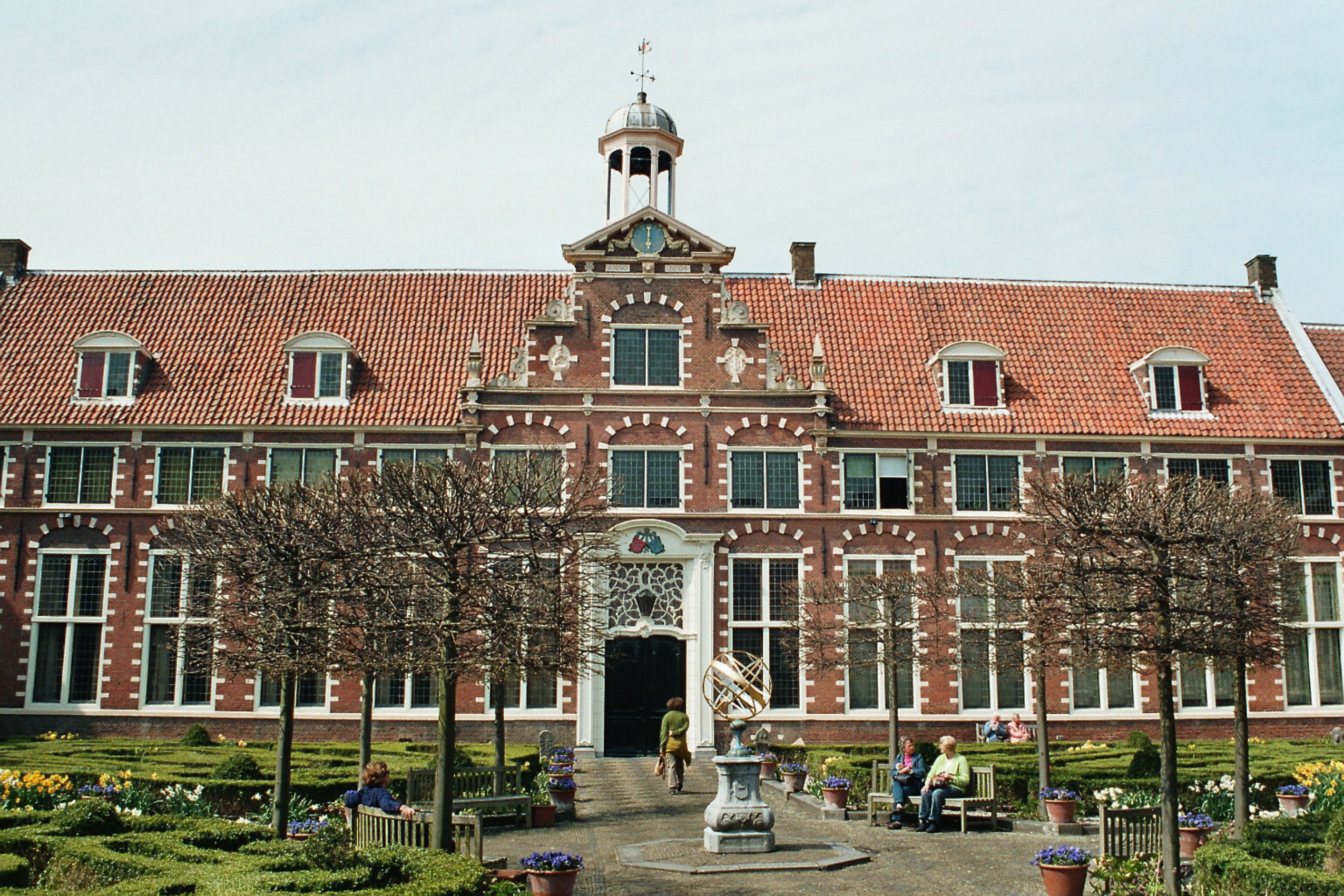 Haarlem, Frans Hals Museum with his garden